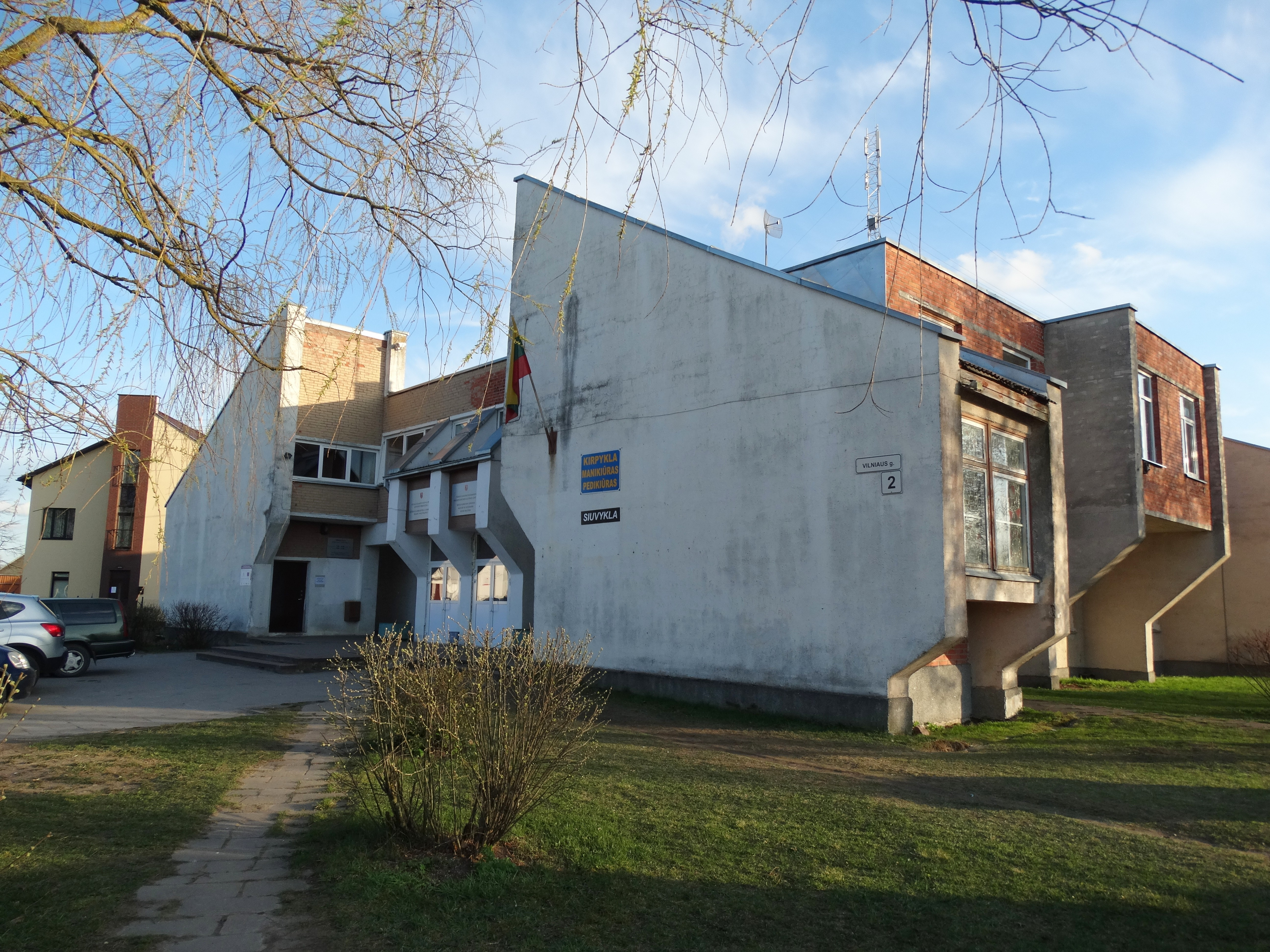 Library, Rudamina, Vilnius district, Lithuania